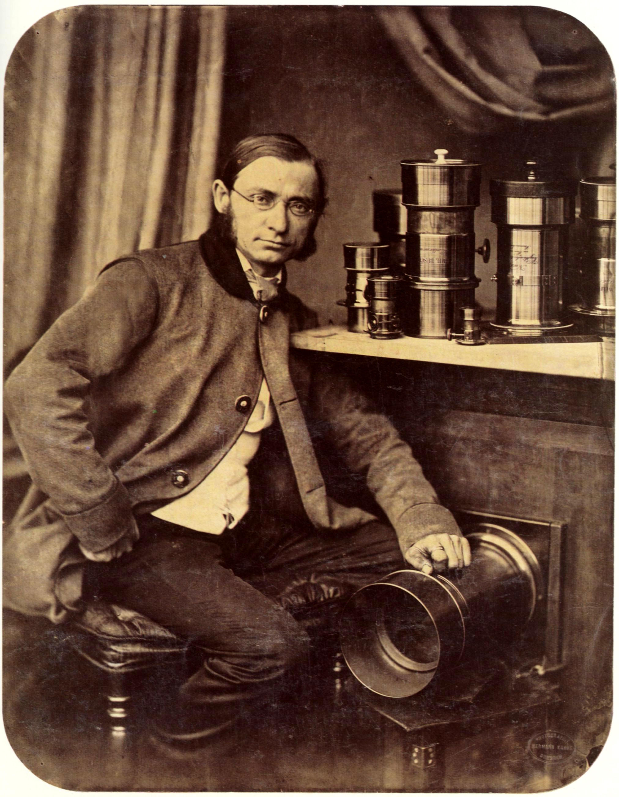 Hermann Krone, saxon photographer (1827-1916).